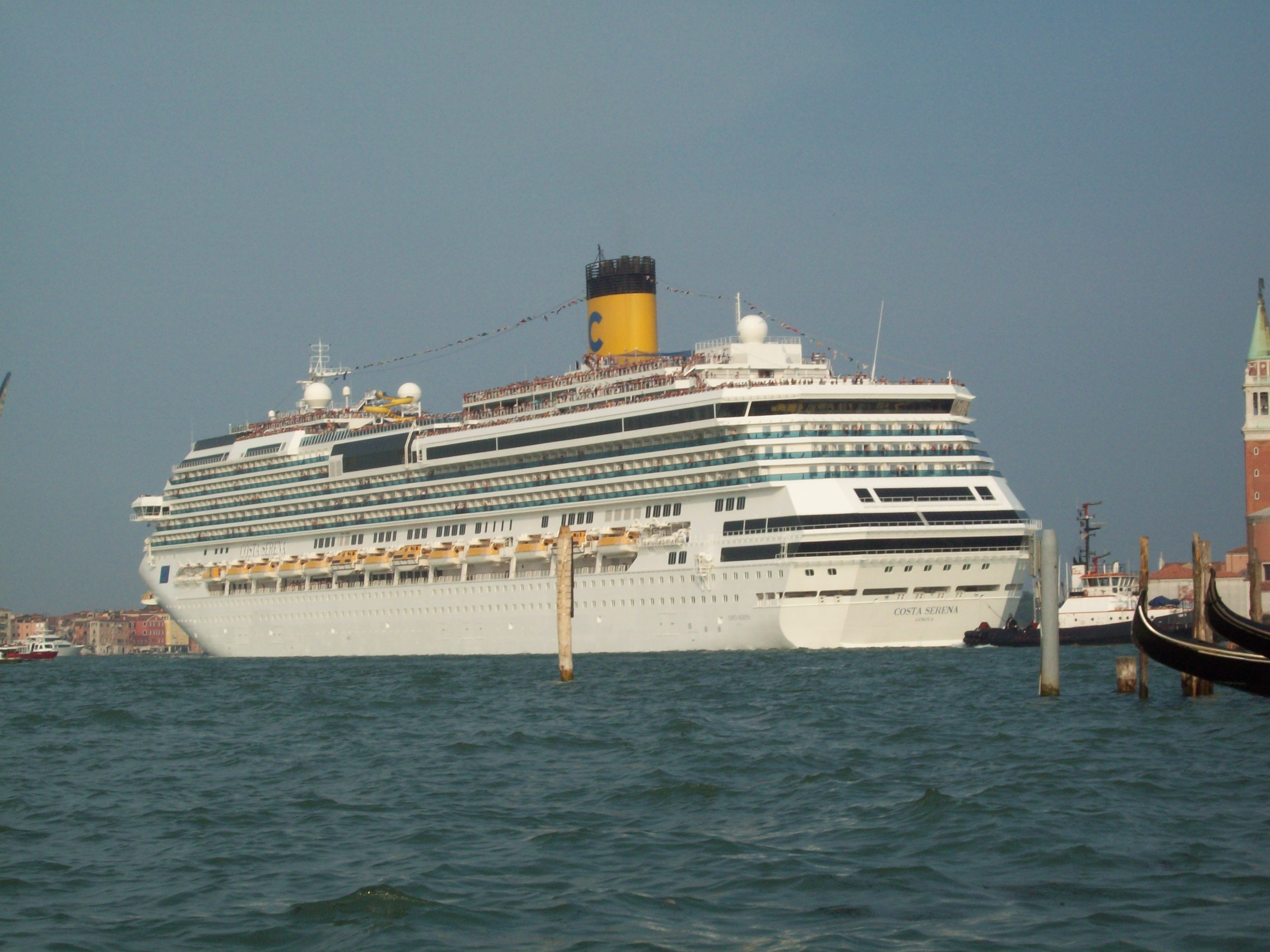 Costa Serena leaving Venice